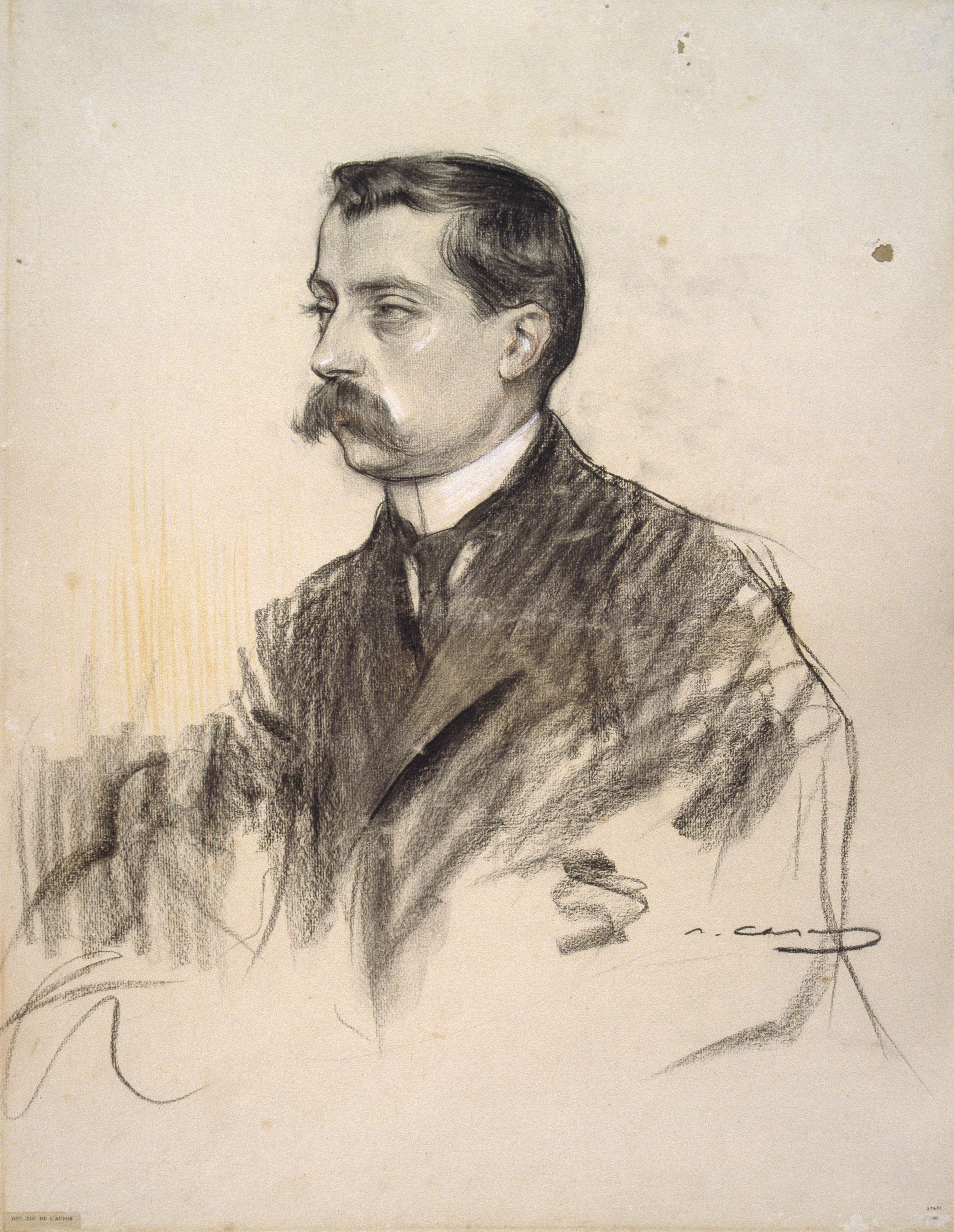 Portrait by Ramon Casas conserved at MNAC in Barcelona.